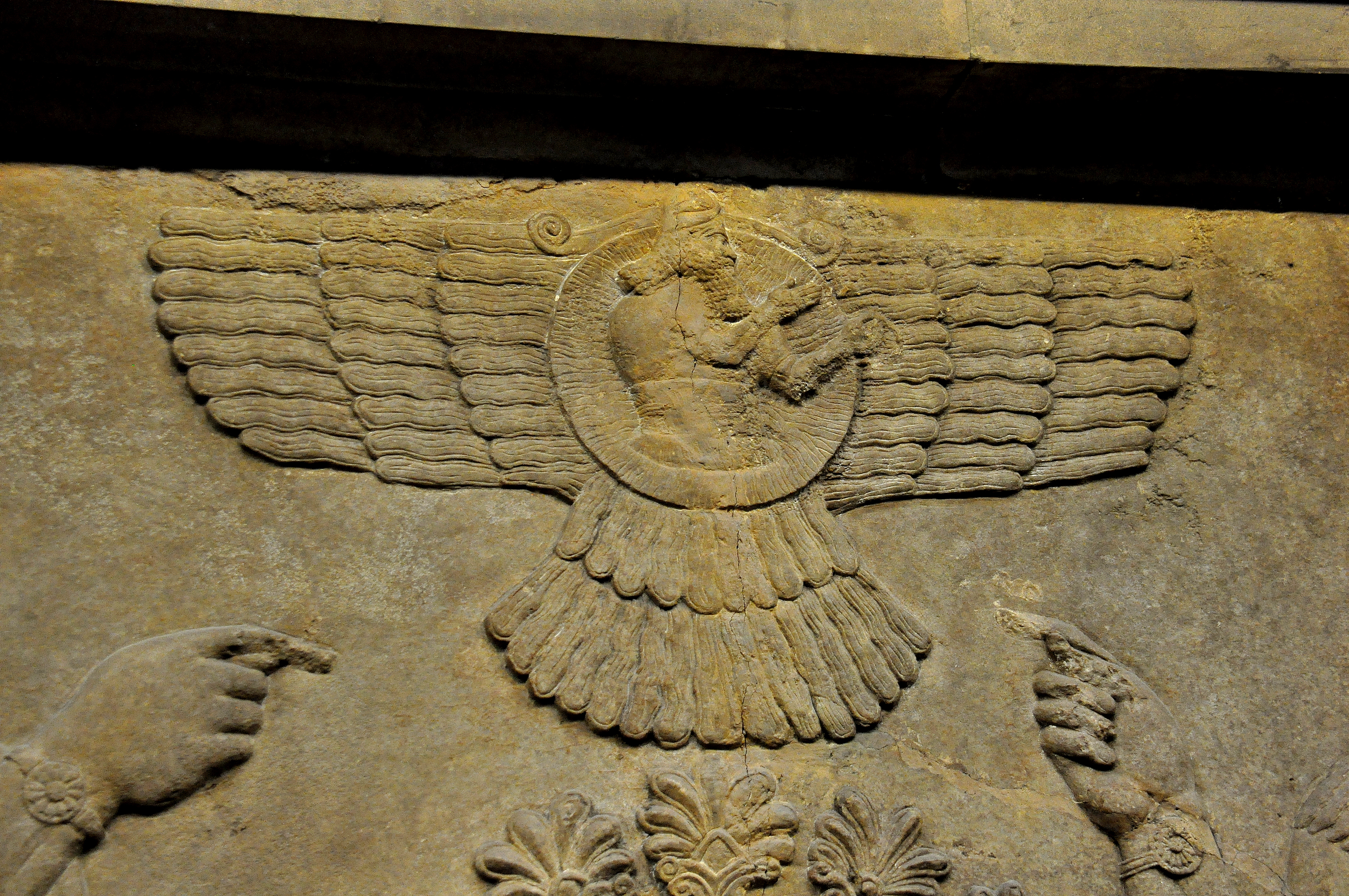 A close-up view of a wall relief depicting the God Ashur (Assur) inside a winged- disc. The hands of Ashurnasirpal II partially appear (who makes a gesture of worship to the God Ashur). From the North-West Palace of Ashurnasirpal II at Nimrud (Biblical Calah; ancient Kalhu), modern day Ninawa Governorate, Iraq (Mesopotamia). Neo-Assyrian period, 865-850 BCE. The British Museum, London.